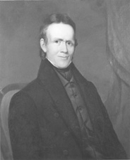 From the U.S. Senate historical office